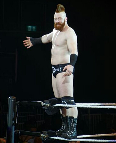 WWE Live returns to London this September Join Roman Reigns, Seth Rollins and more WWE Superstars at the 02 Arena for a one-night-only WWE Live in London on Wednesday, 7 Sept. Cesaro def. (pin) Sheamus Type of match : 'Best of 7' series